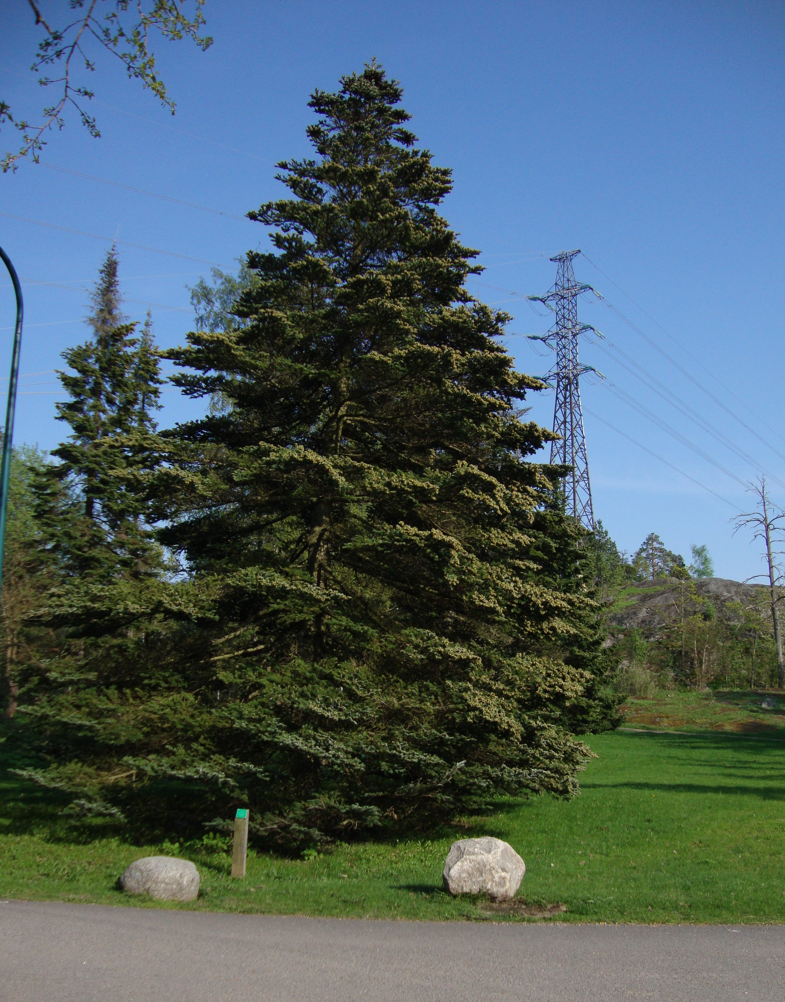 Veitch's Fir (Abies veitchii) can be found in Meilahti Arboretum in Helsinki.